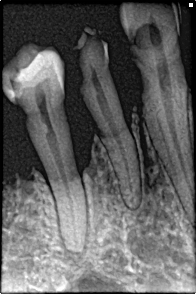 Dental radiograph showing bone loss in a patient who consumes 2 packs of cigarettes.